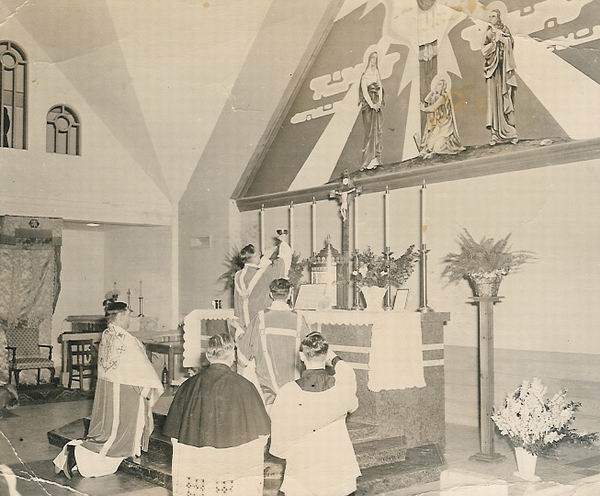 Own family photo collection. No copyright.